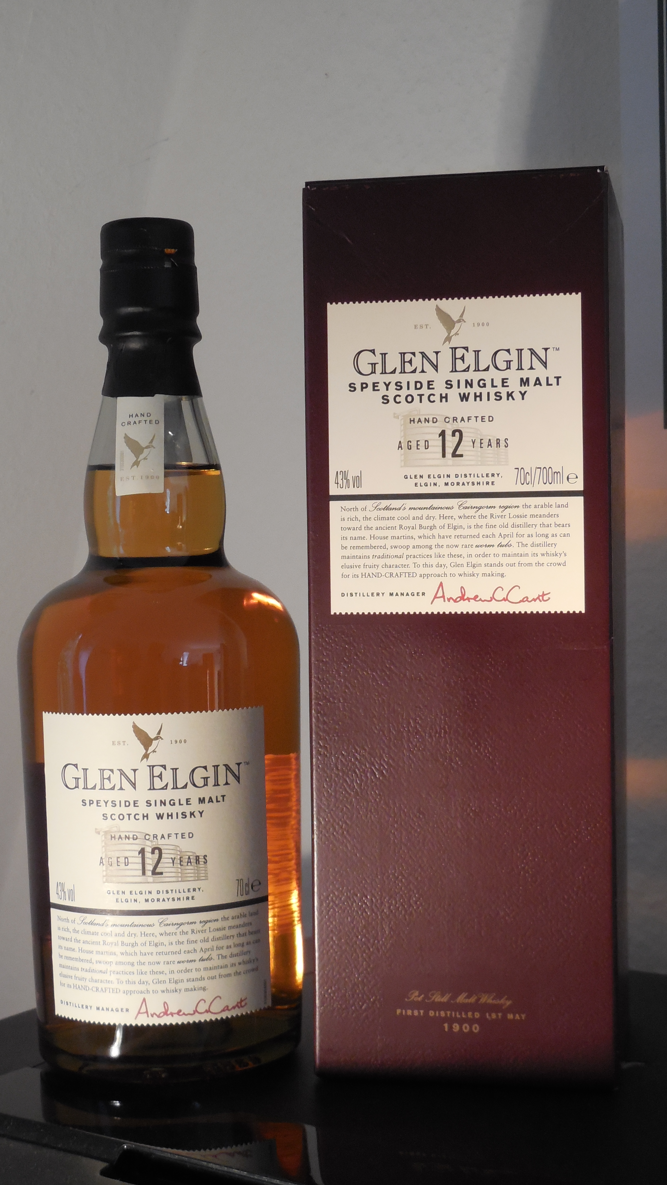 A bottle of Glen Elgin whisky, 12 years